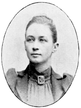 Image scanned from the book "Svenskt Porträttgalleri XX - Arkitekter, Bildhuggare, Målare m.fl. " ("Swedish Portrait Gallery XX - Architects, Sculptors, Painters, ") published 1901